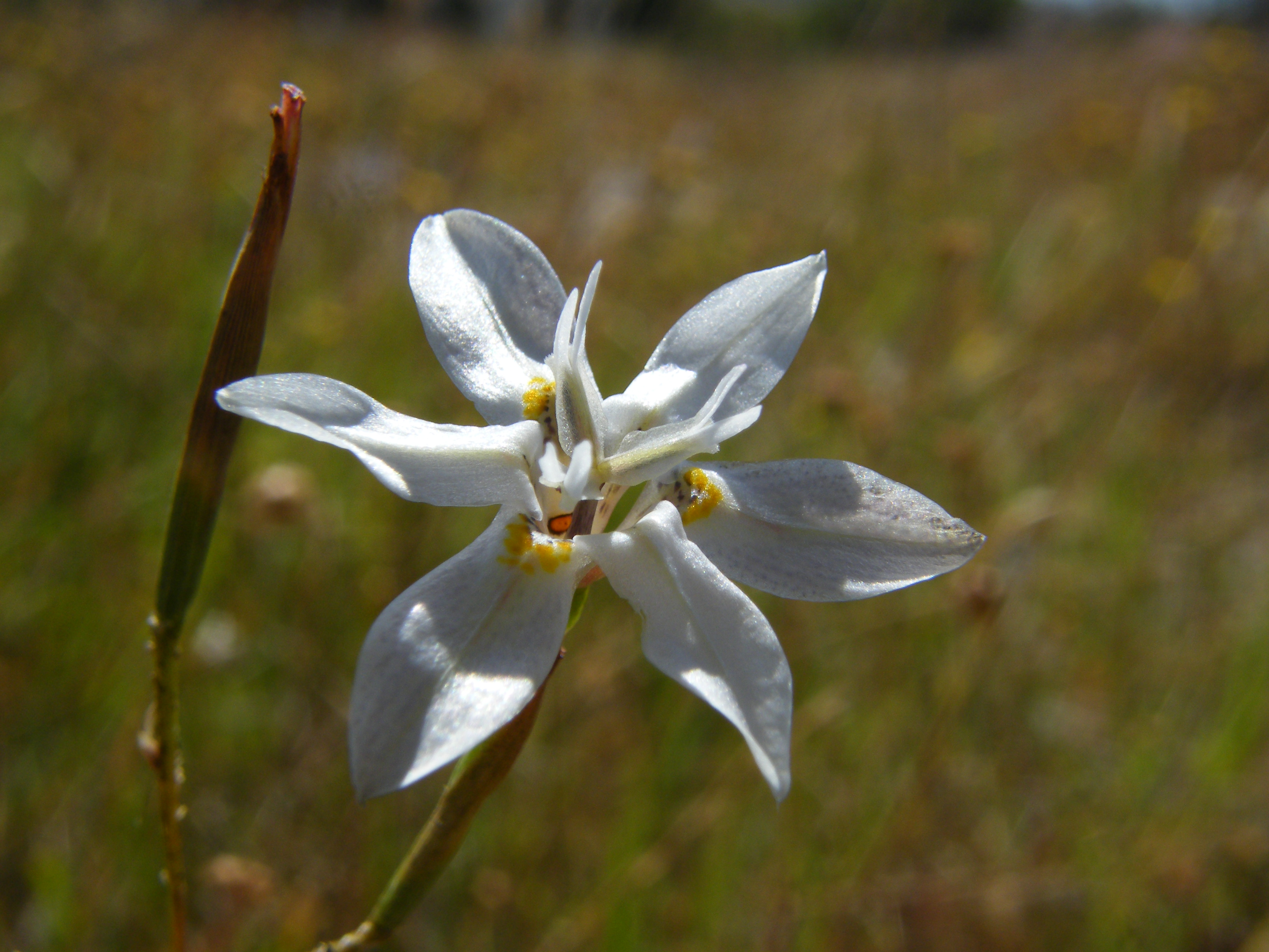 Moraea